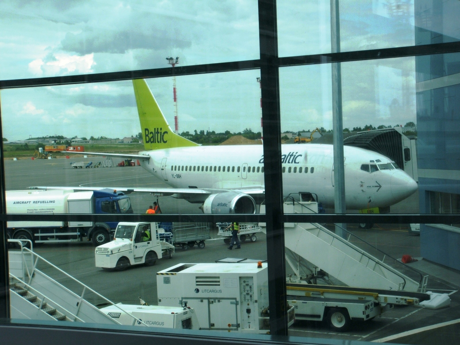 airBaltic Boeing 737 at Vilnius airport